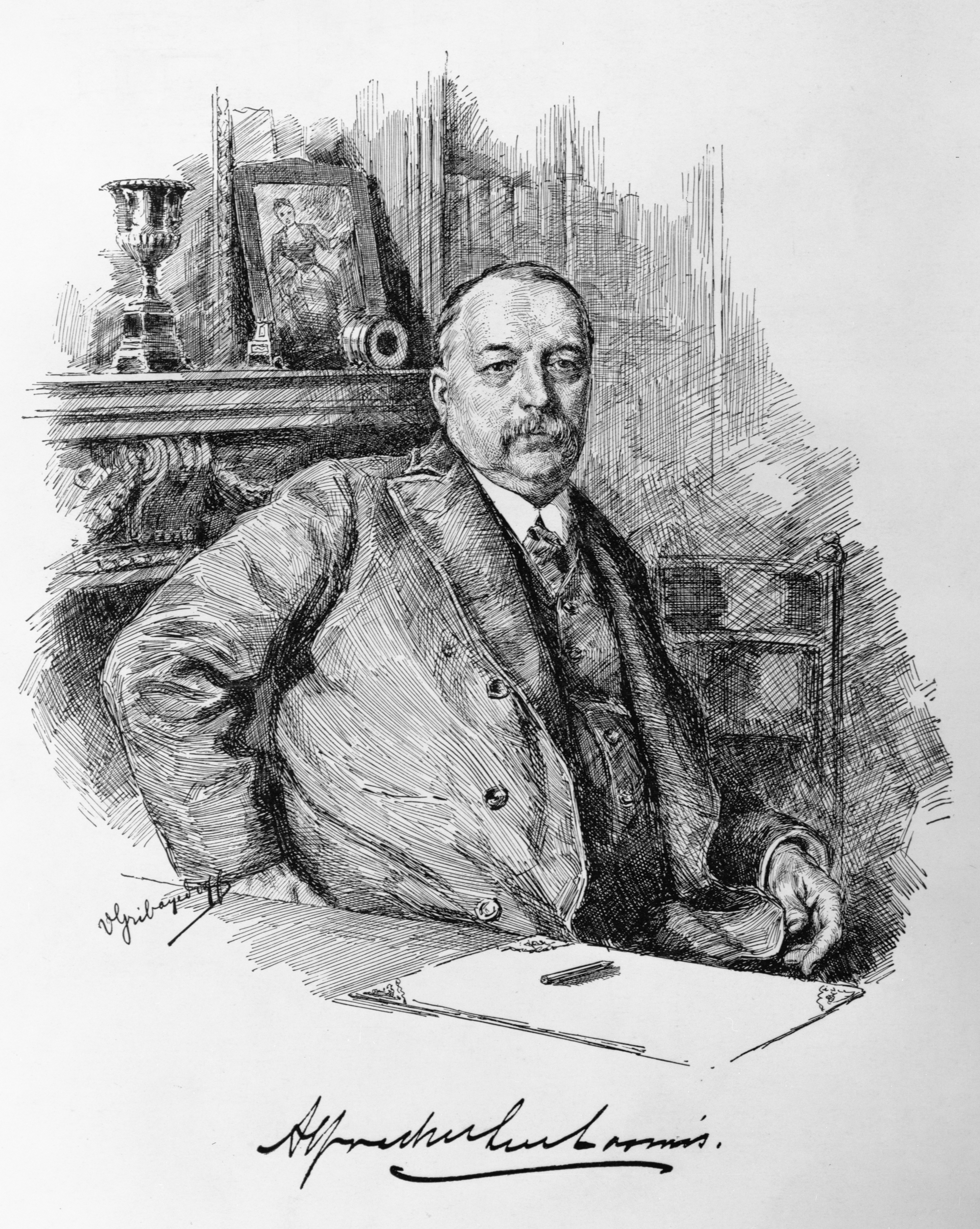 Drawing of Alfred Lebbeus Loomis, the noted physician